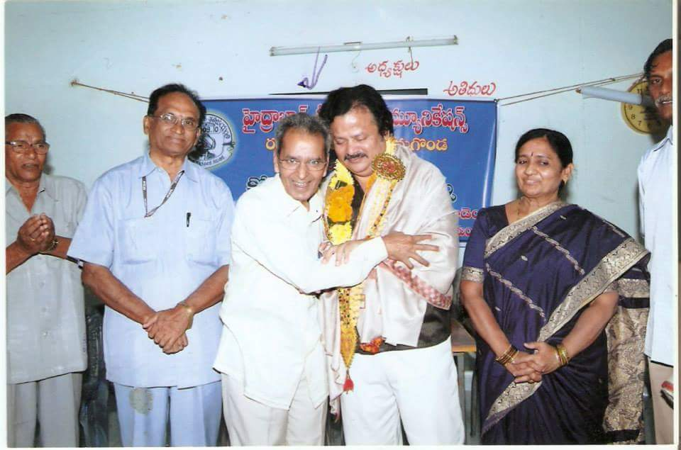 ప్రముఖ రచయిత పోరంకి దక్షిణామూర్తి చే సన్మానం